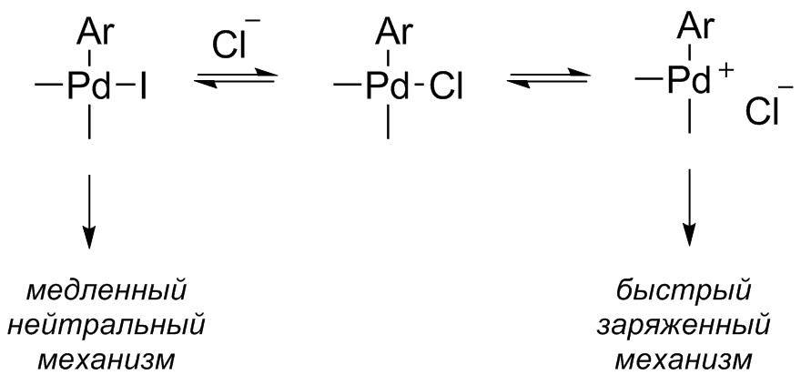 Heck mechanisms